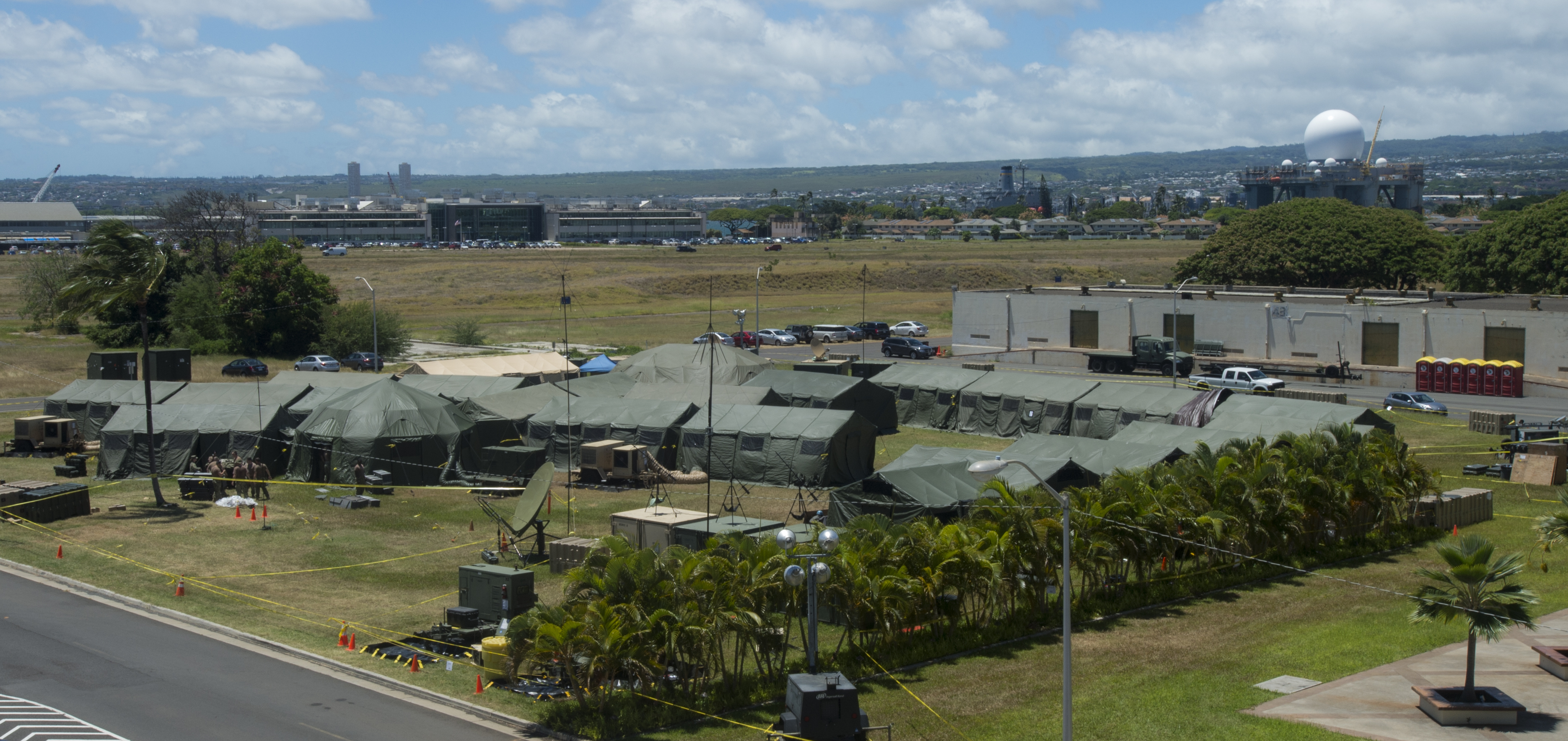 The tactical operations center set up begins for the humanitarian assistance and disaster relief phase of Rim of the Pacific (RIMPAC) Exercise 2014 on Ford Island, Hawaii. Twenty-two nations, 49 ships, six submarines, more than 200 aircraft and 25,000 personnel are participating in RIMPAC exercise from June 26 to Aug. 1, in and around the Hawaiian Islands. The world's largest international maritime exercise, RIMPAC provides a unique training opportunity that helps participants foster and sustain the cooperative relationships that are critical to ensuring the safety of sea lanes and security on the world's oceans. RIMPAC 2014 is the 24th exercise in the series that began in 1971. (U.S. Navy photo by Mass Communication Specialist 3rd Class Daniel Rolston/Released)